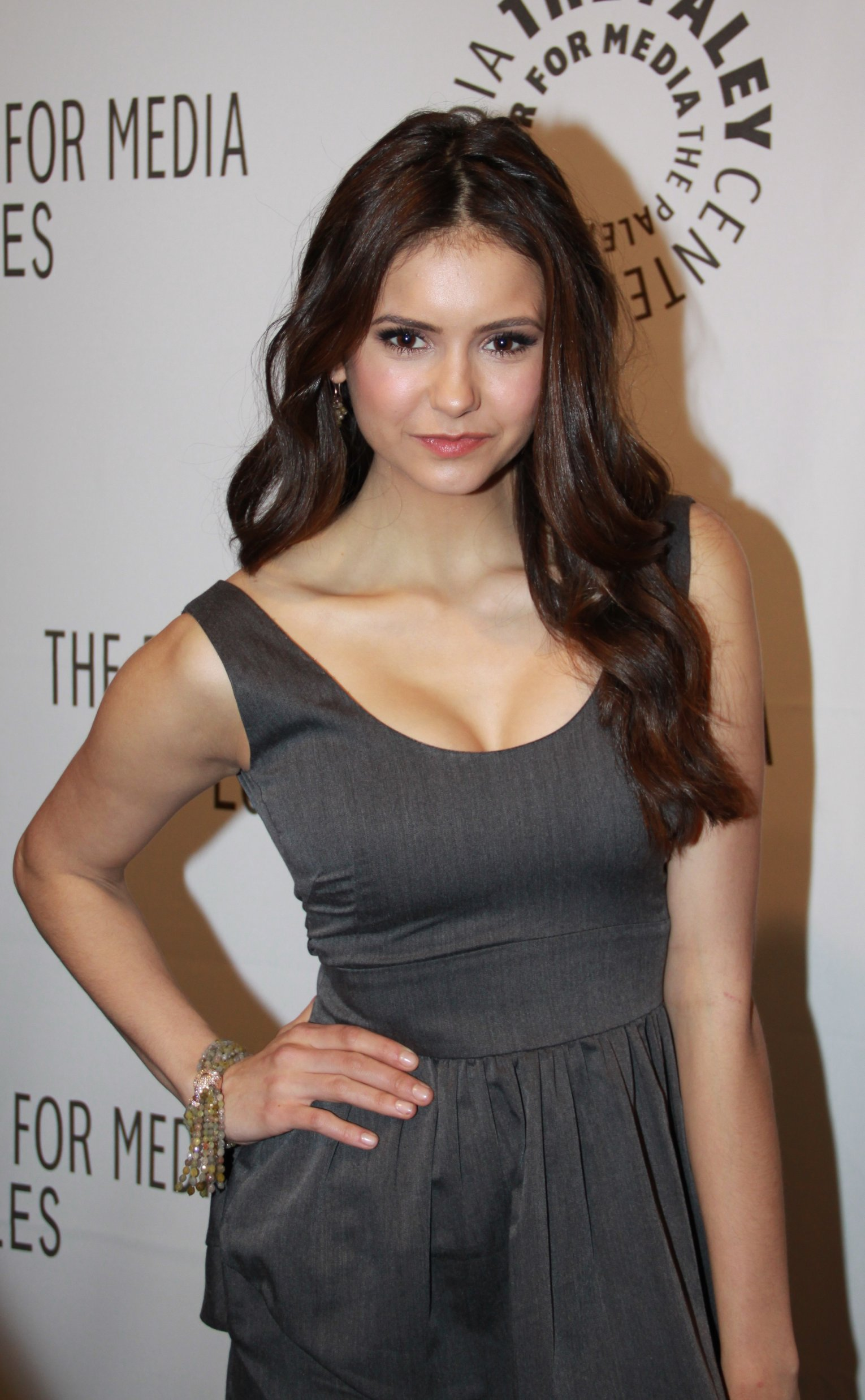 Nina Dobrev at PaleyFest2010's "The Vampire Diaries" night at the Saban Theatre, Los Angeles, on March 6th, 2010.